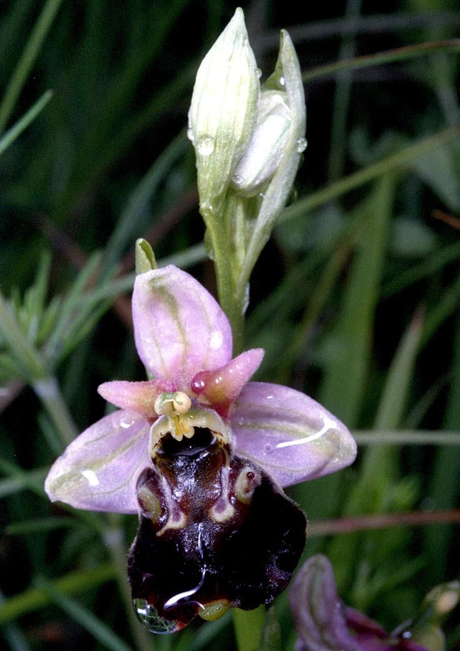 Ophrys holoserica